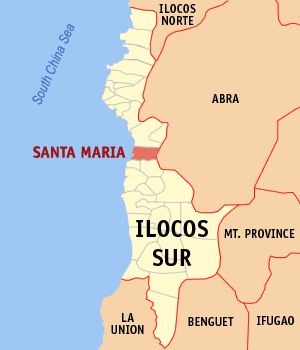 Map of Ilocos Sur showing the location of Santa Maria